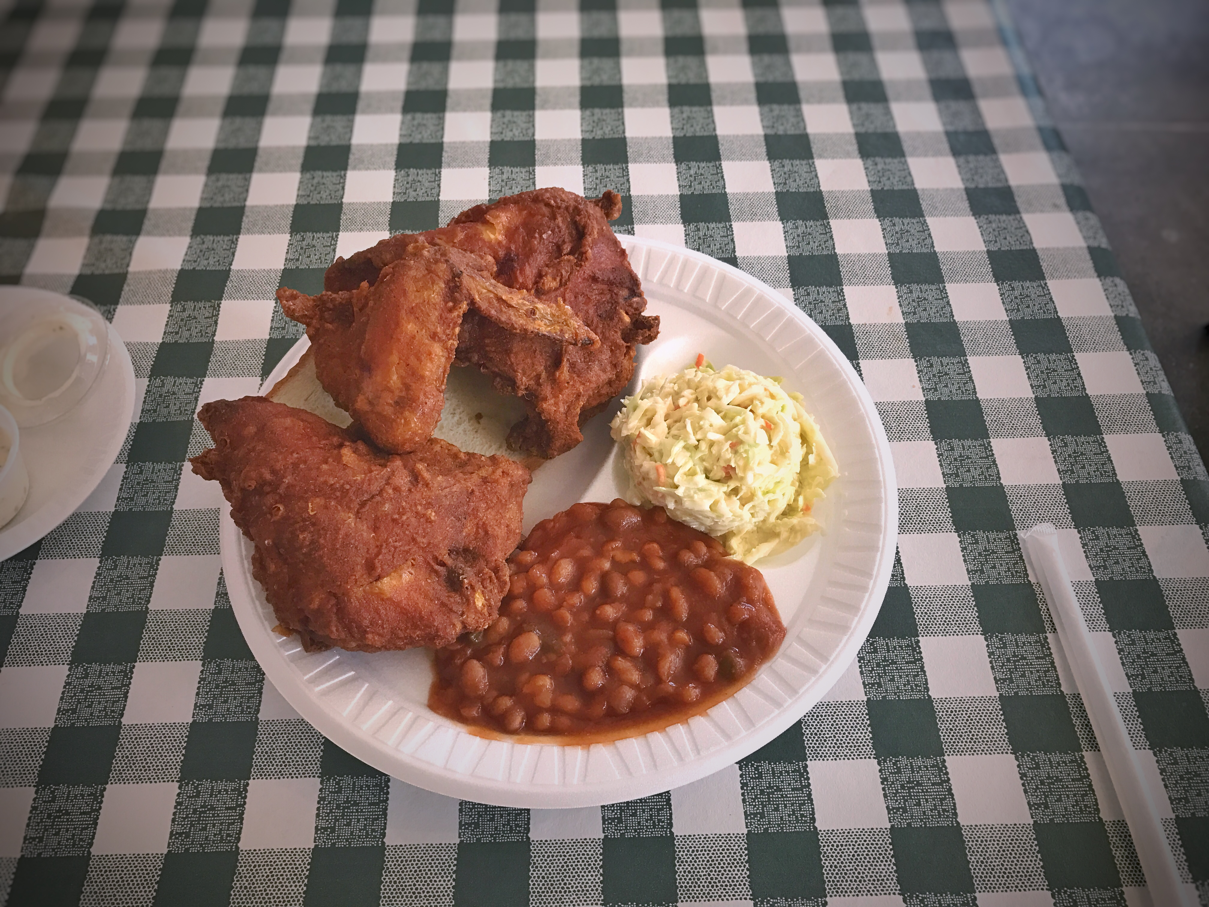 Gus’s World Famous Fried Chicken, Los Angeles CA